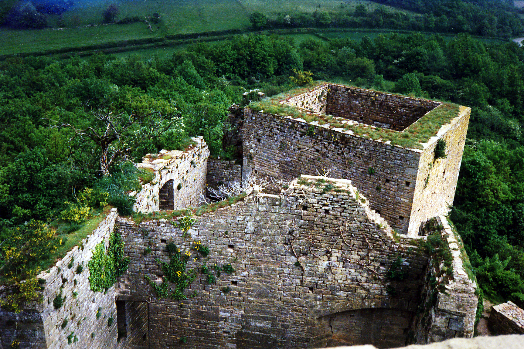 Brancion Castle, Burgundy, France